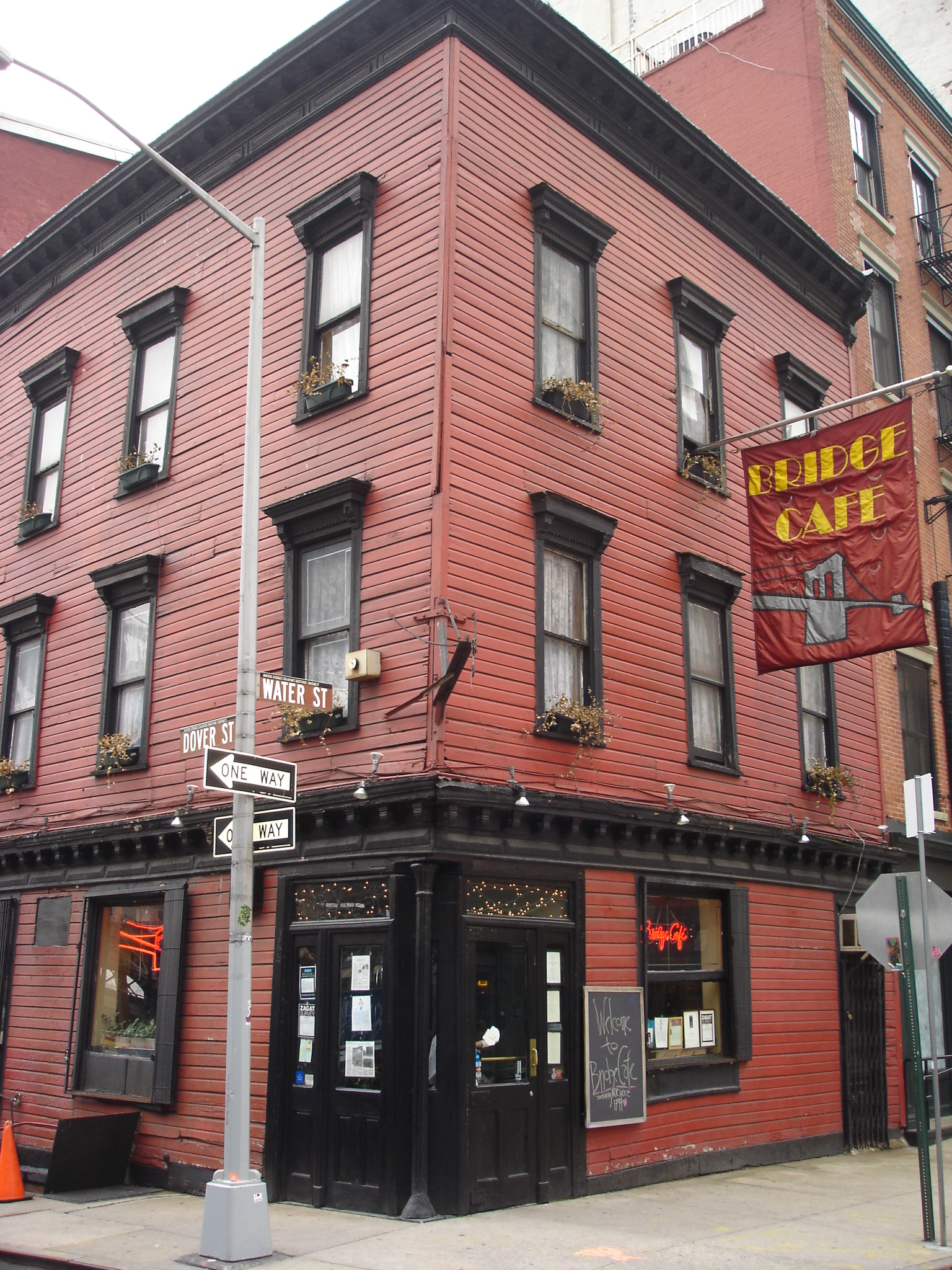 This photo is of Wikipedia Takes Manhattan location code 164, Bridge Cafe.